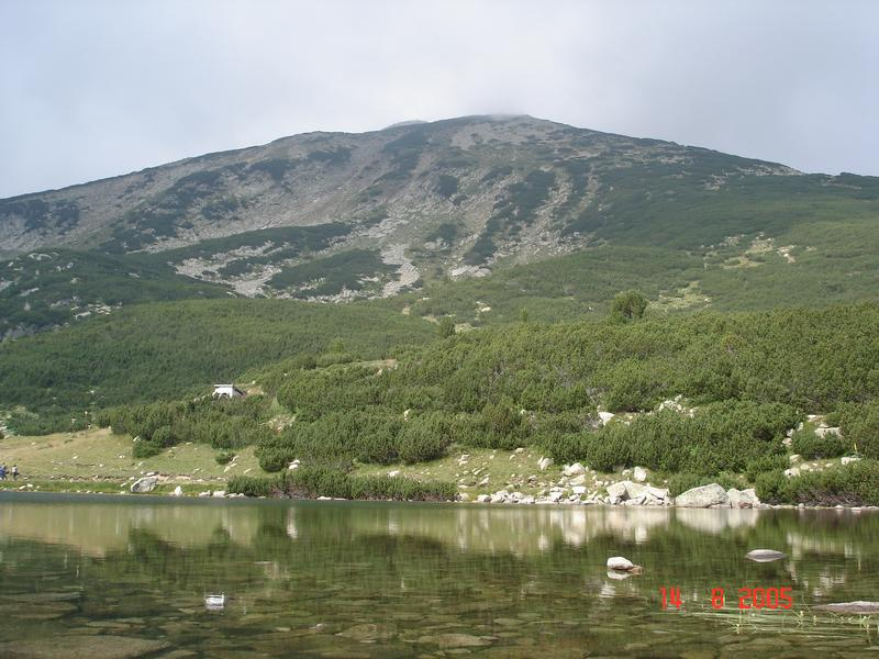 Bezbog - a summit in Pirin mountain in Bulgaria